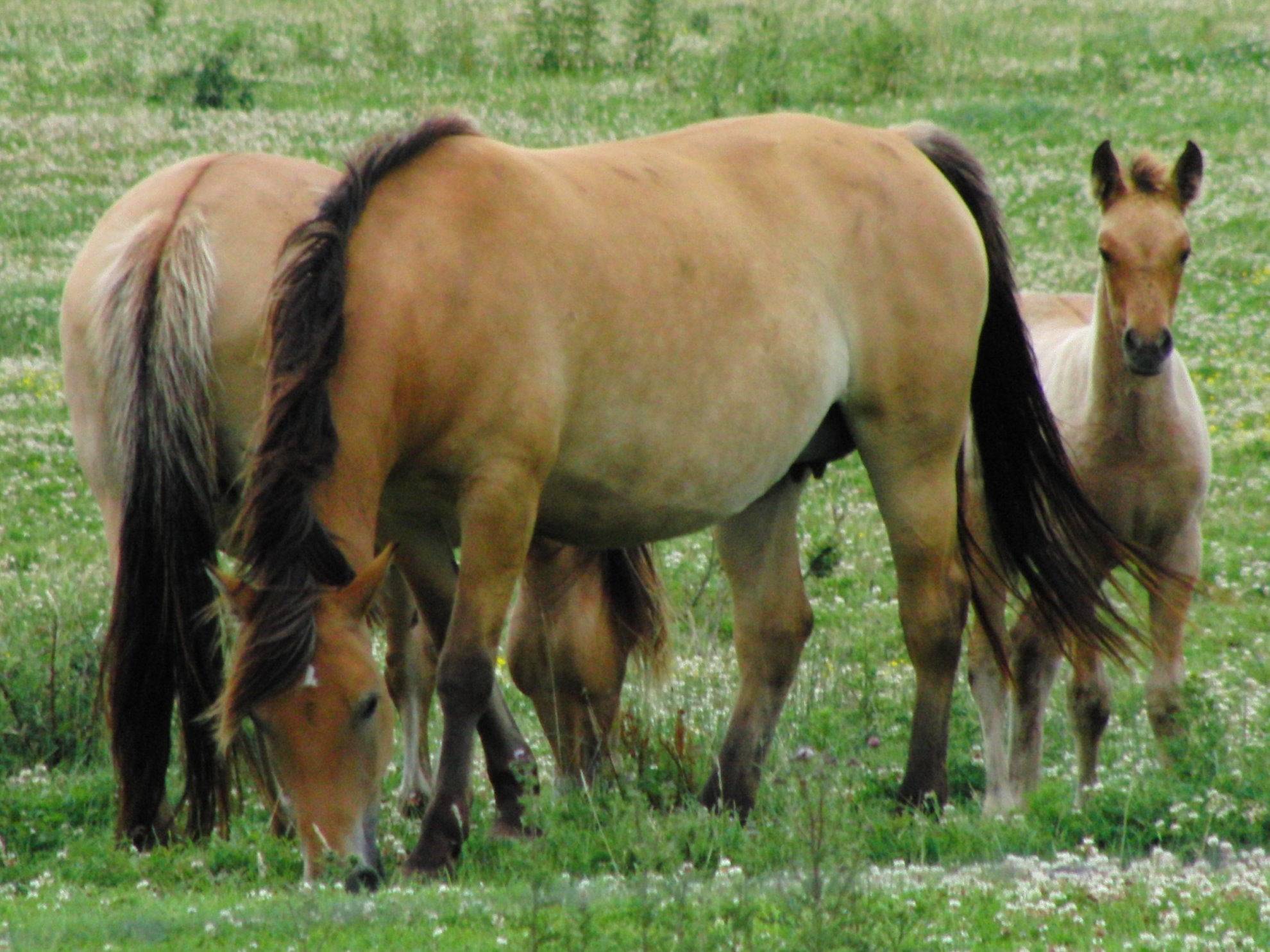 Henson mares and foal, Haras Henson de Saint-Jean, Rue, Somme, France